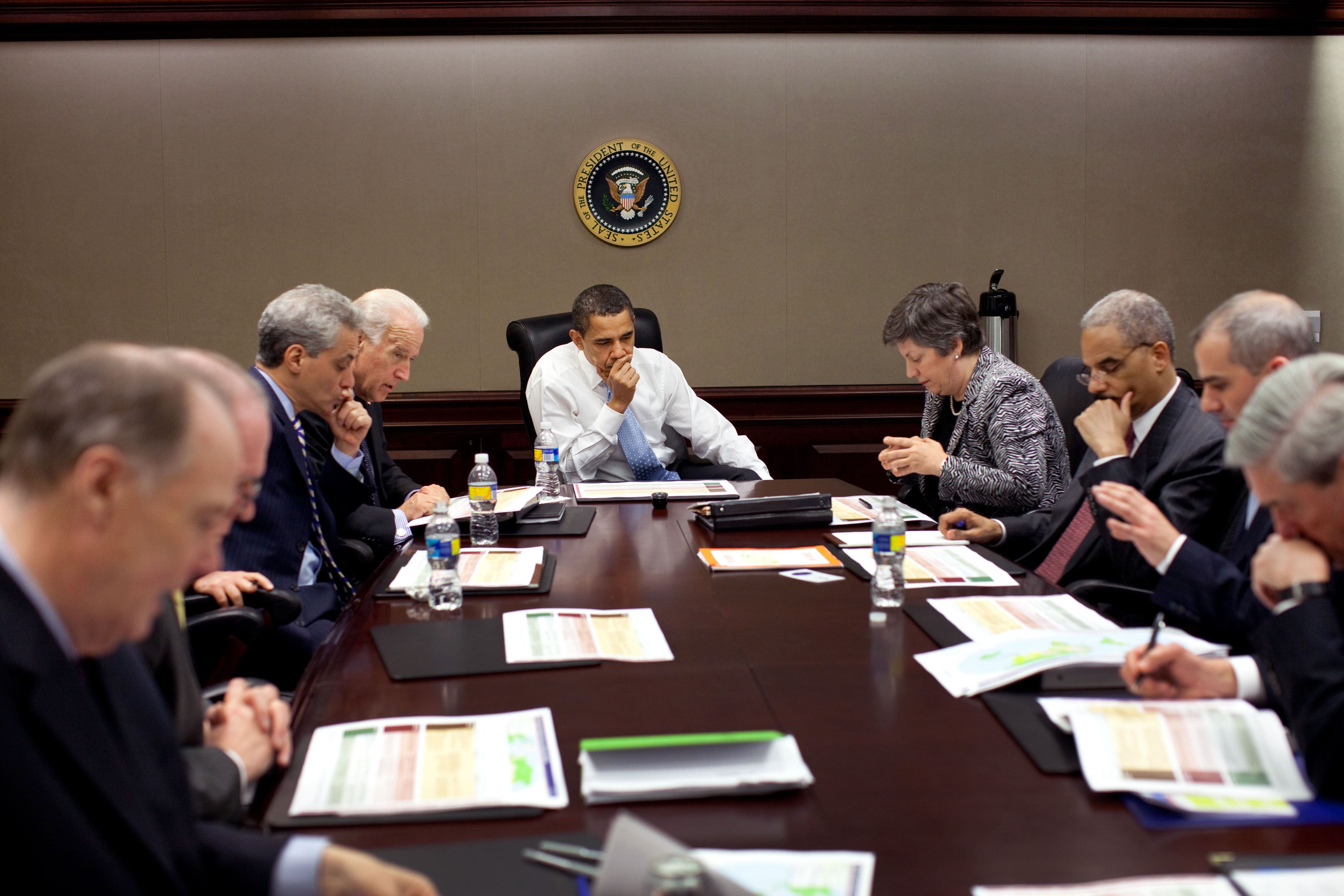 President Barack Obama being briefed about the swine flu outbreak by other executive officers.